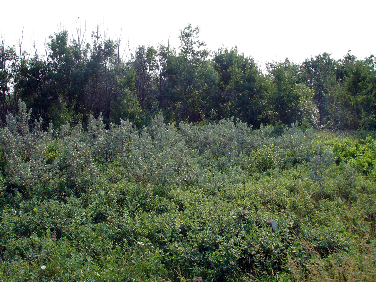 Saskatoon Natural Grasslands, a pocket of undisturbed prairie in Saskatoon's Silverspring neighbourhood.